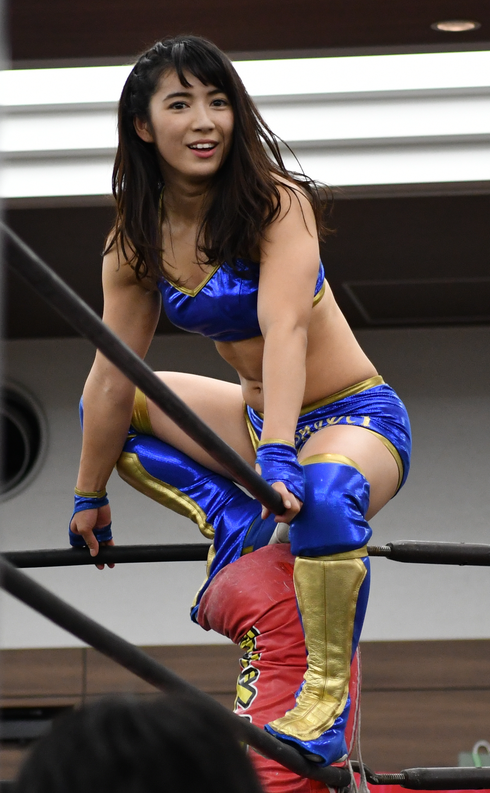 Reika Saiki (June 15, 2016 at Coconeri Hall)